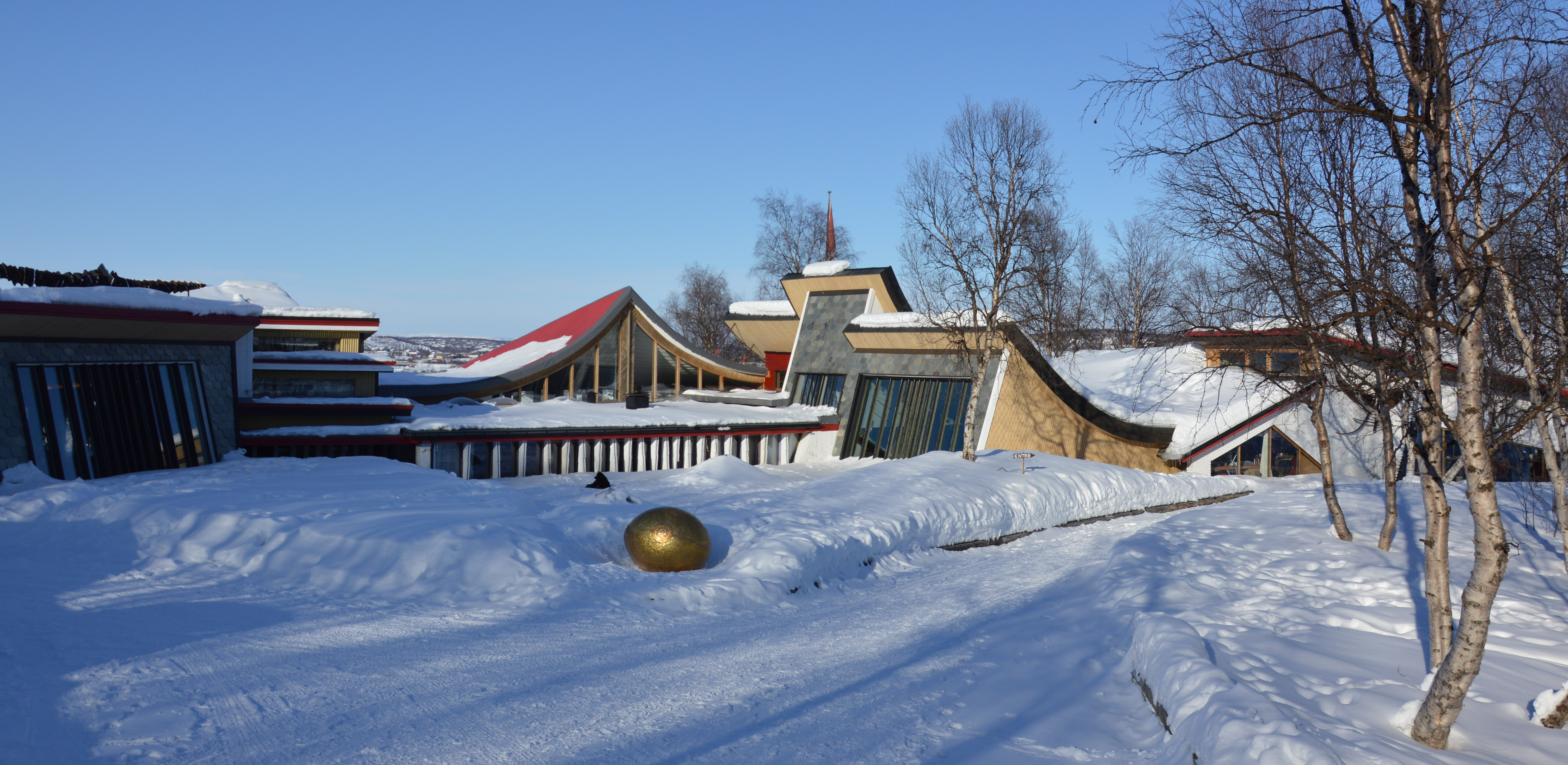 Juhls' Silversmith and Gallery in Guovdageaidnu/Kautokeino